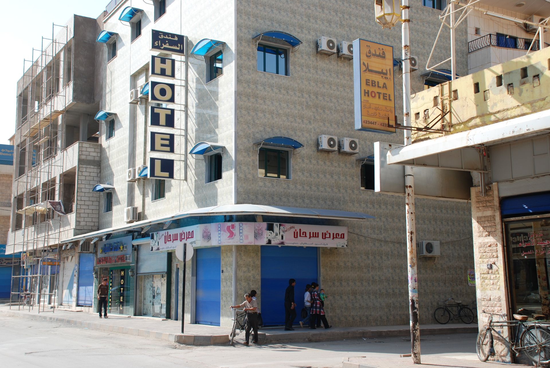 Qamishli, Syria, Sh. ar-Rais Hafiz al-Assad = main street